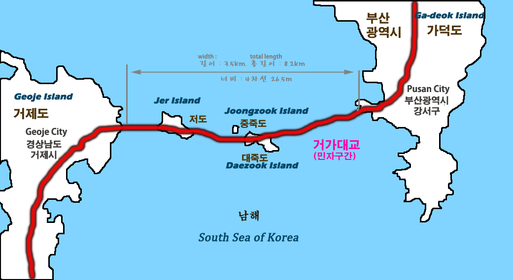 Map of Busan–Geoje Fixed Link roadway bridge-tunnel system